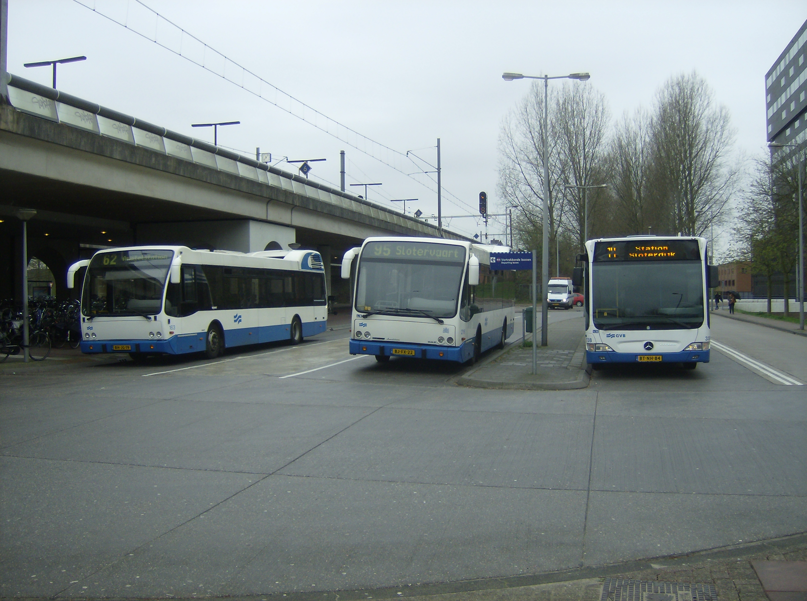 The Bus Station in Amsterdam, just outside the main entrance of the station. From left to right: two Berkhof Jonckheer 12 city bus (#163, reg. BH-JG-19, built 1999 and #216, reg. BJ-FX-22, built 2000) with DAF SB250 chassis and Mercedes-Benz Citaro G bus (#338, reg. BT-NH-84, built 2007). Gemeentevervoerbedrijf (GVB) operator.